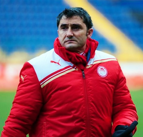 Ernesto Valverde